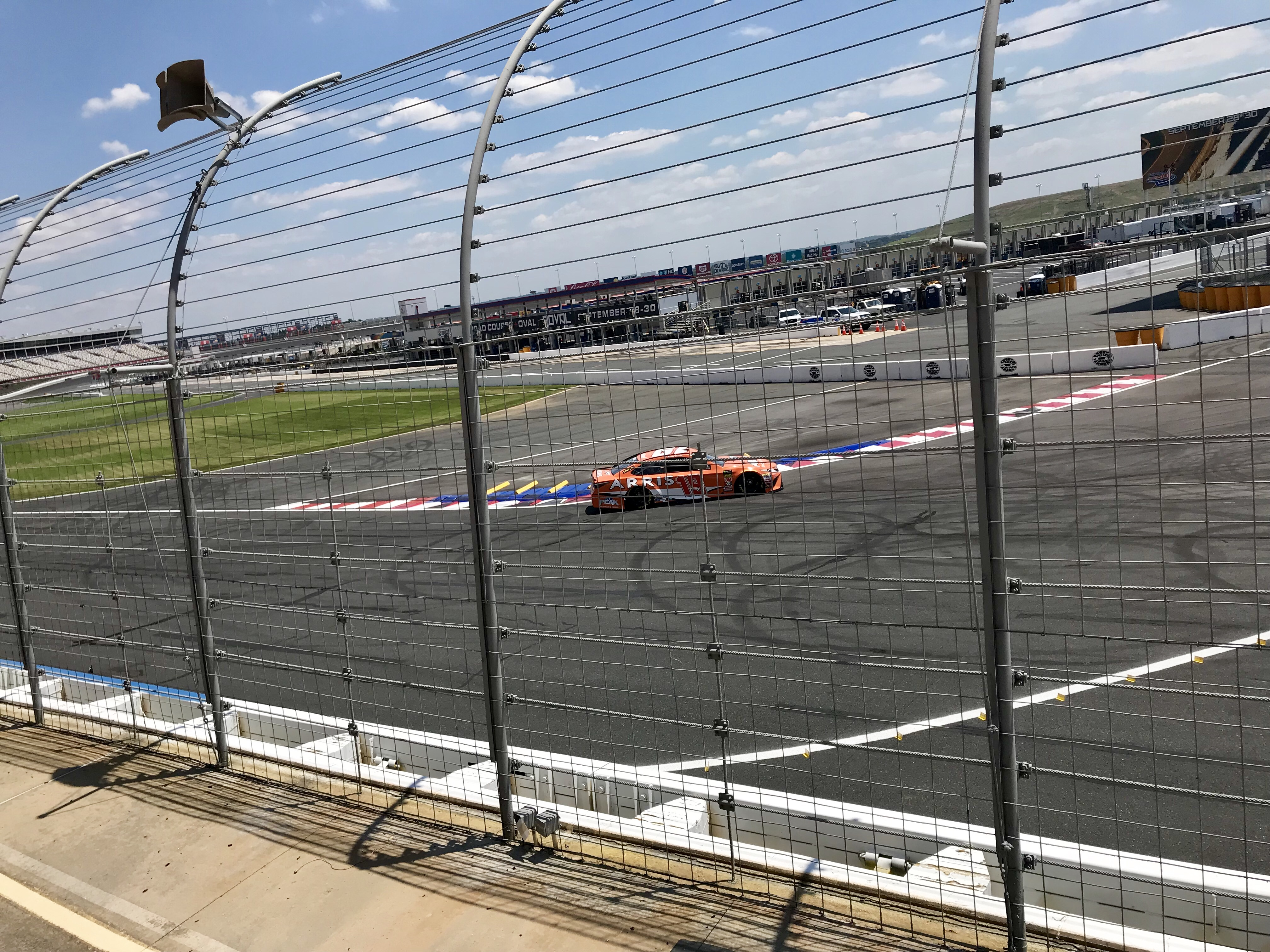 Daniel Suárez testing at the ROVAL at Charlotte MOtor Speedway